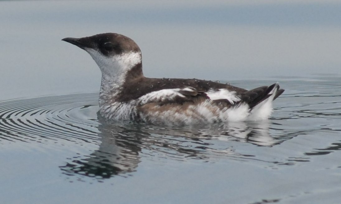 Brachyramphus marmoratus (Marbled Murrelet) in non-breeding plumage